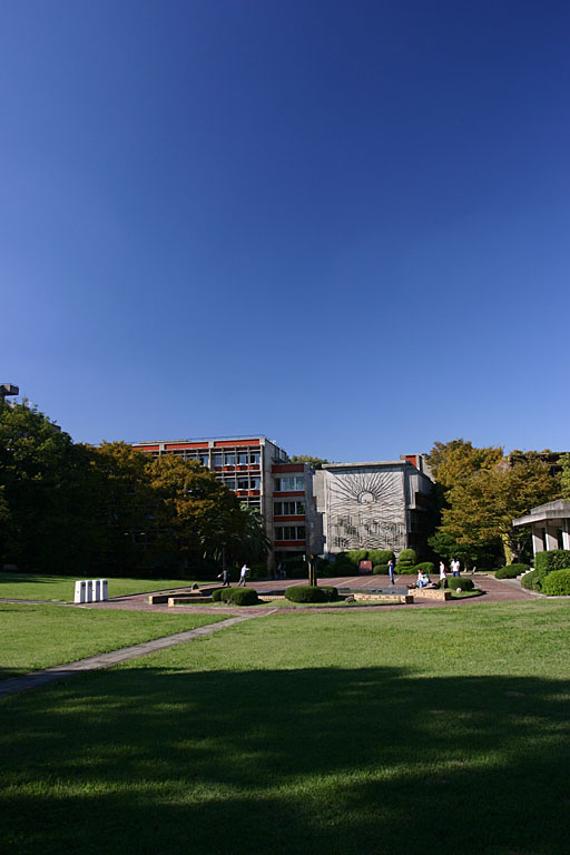 Nanzan University